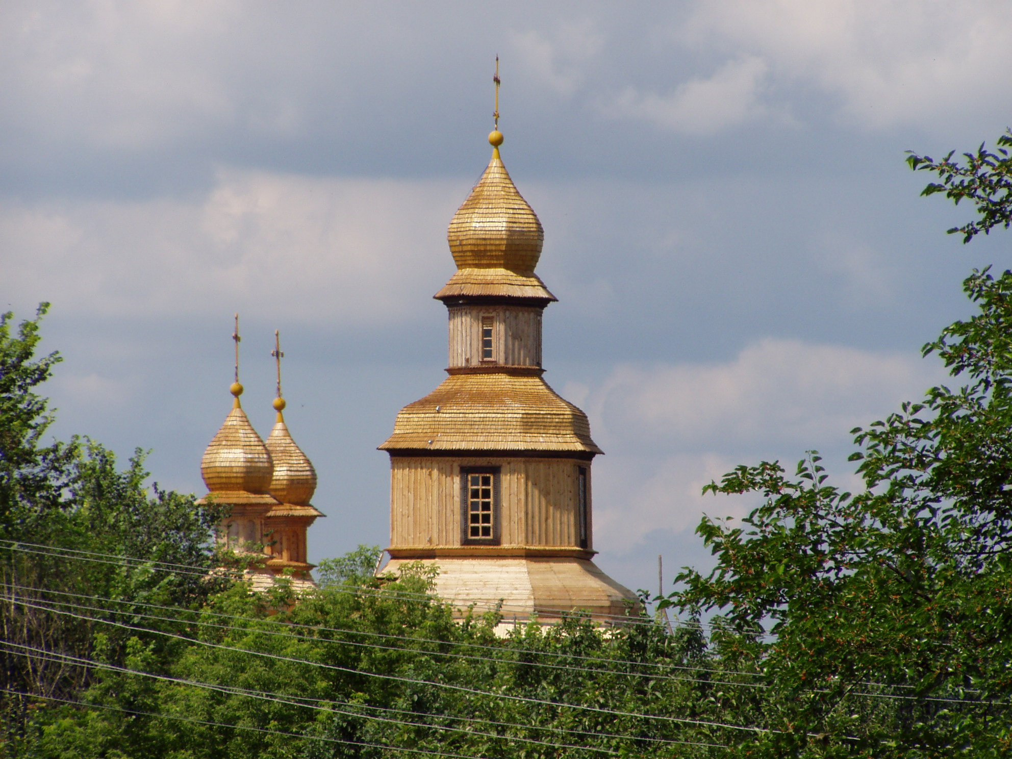 St. George wooden church in Sedniv